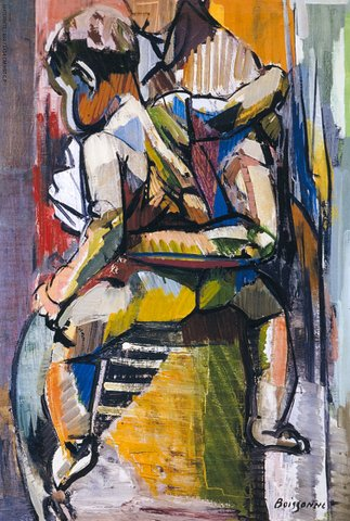 Edmond Boissonnet